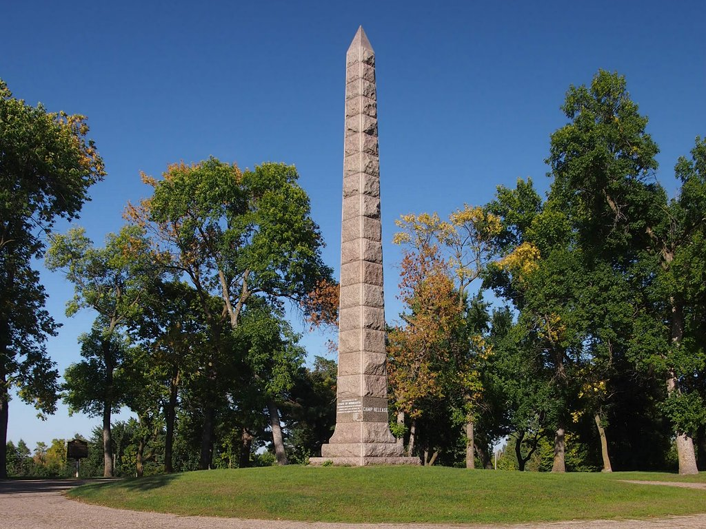 Camp Release State Monument, outside Montevideo, Minnesota, USA. Viewed from the southwest atop a stepladder.